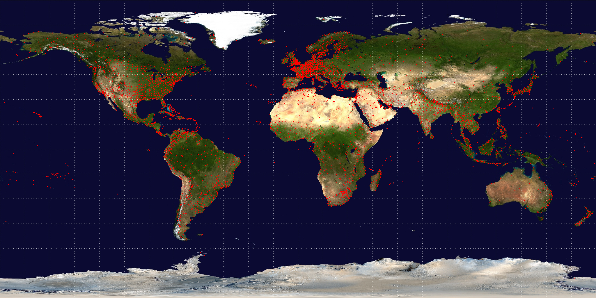 Map of airport distribution around the world. Contains 4381 airports, each marked by a red dot. Base map is NASA Blue Marble (PD), airport data is from OpenFlights (Open Database License).